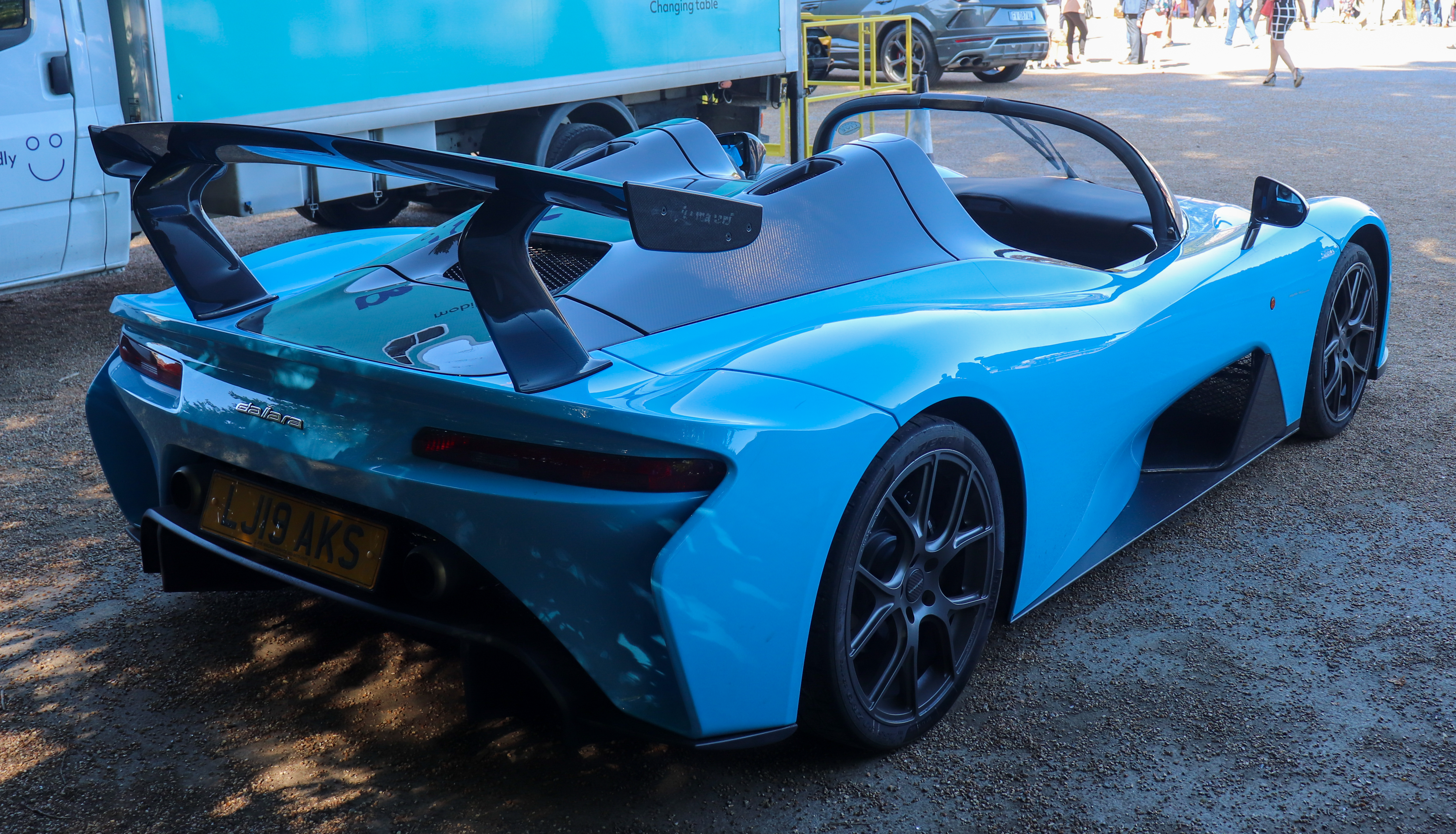 2019 Dallara Stradale 2.3 Rear Taken at the Salon Privé Concours d'Elegance Classic Car Motor Show 2019, Blenheim Palace